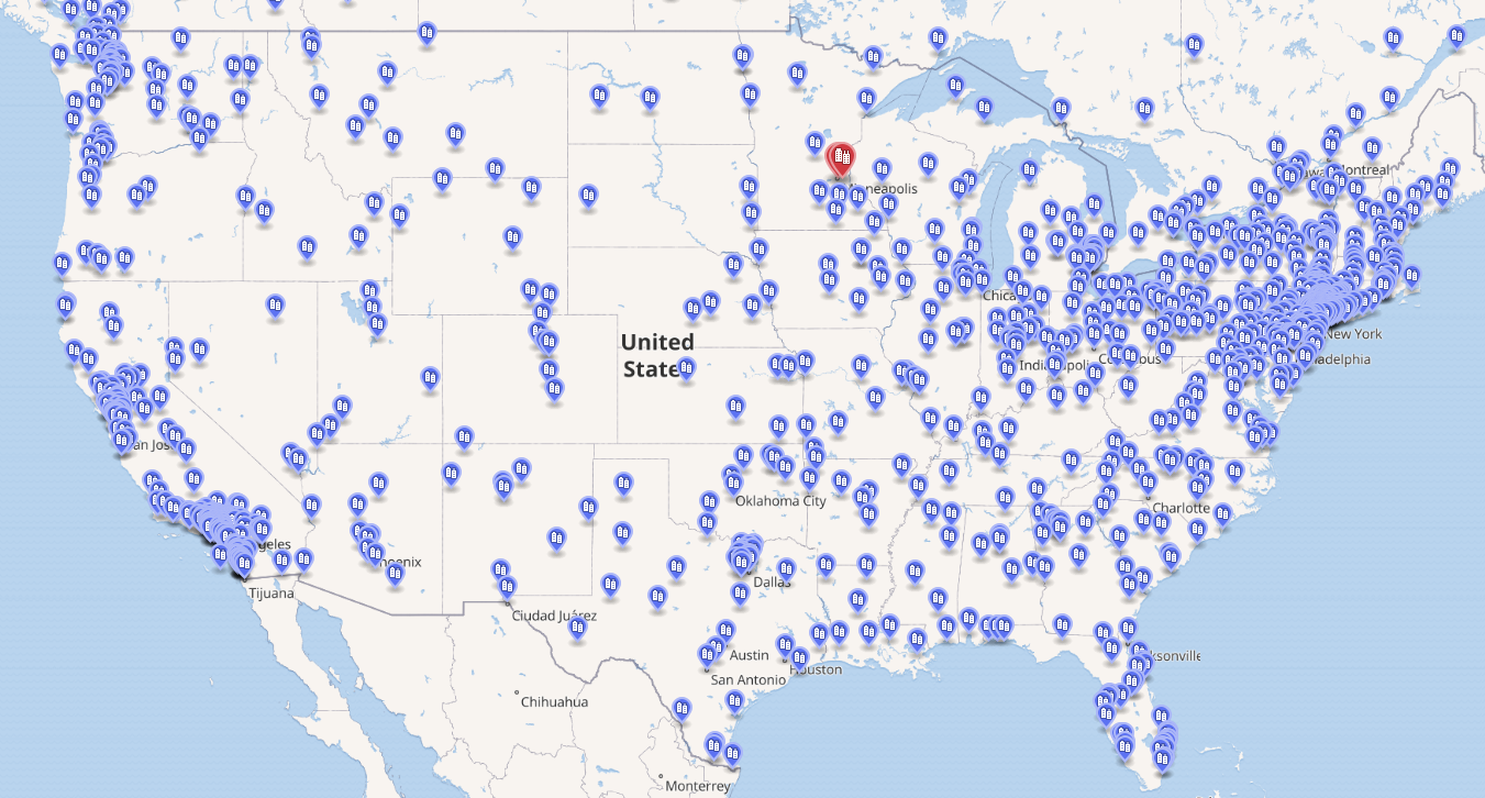 Generated from static screenshot of Last updated 7/5/2020 This map may be incomplete, and may contain errors. Don't rely solely on it for navigation.